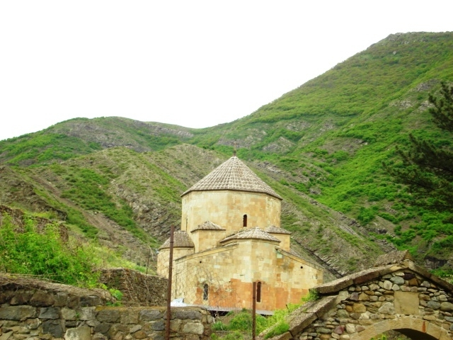 Ateni Sioni Church in Georgia